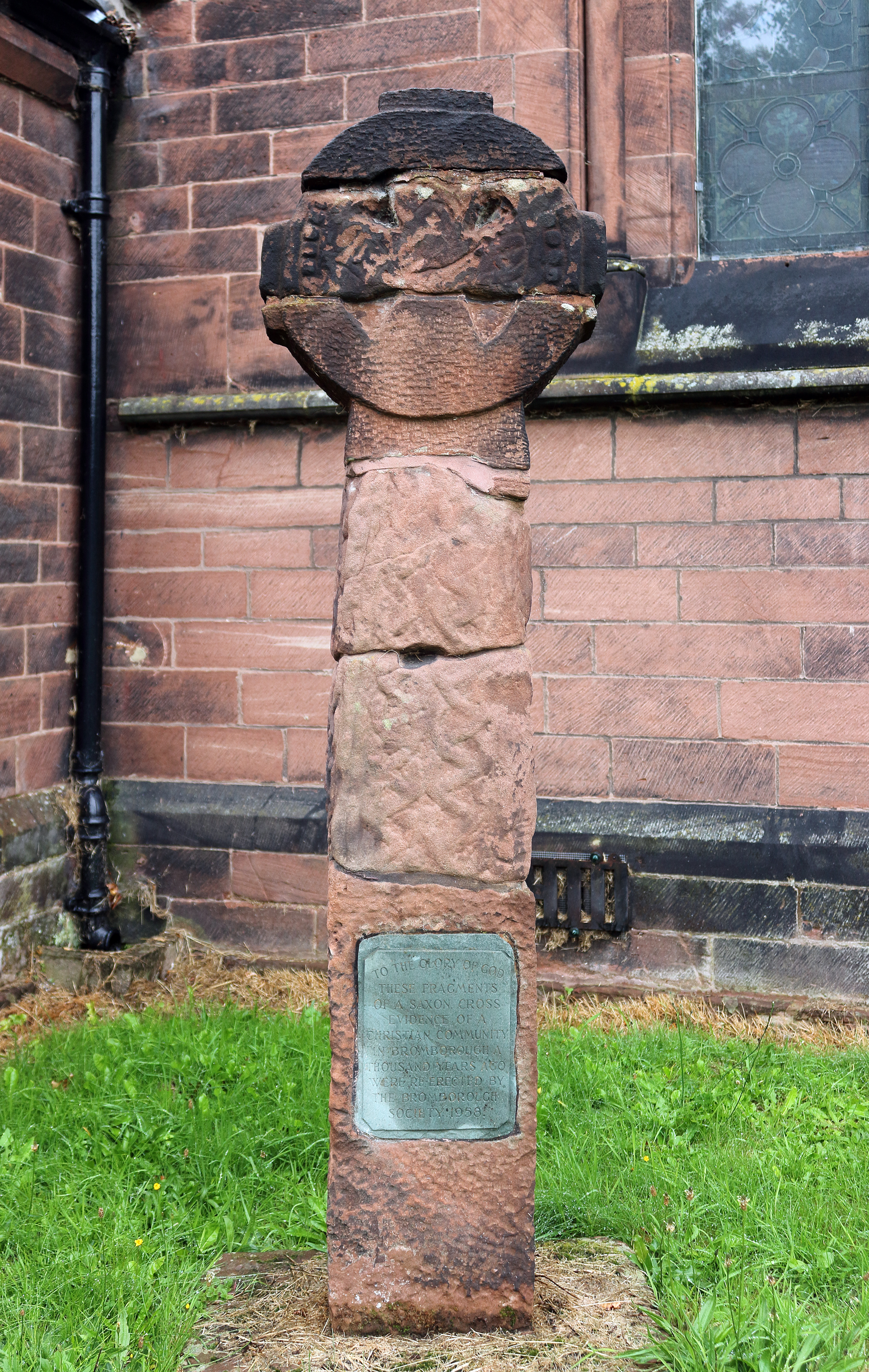 Grade II listed cross constructed 1958 from parts dating to 9th/10th century. it stands to the right of the church porch.